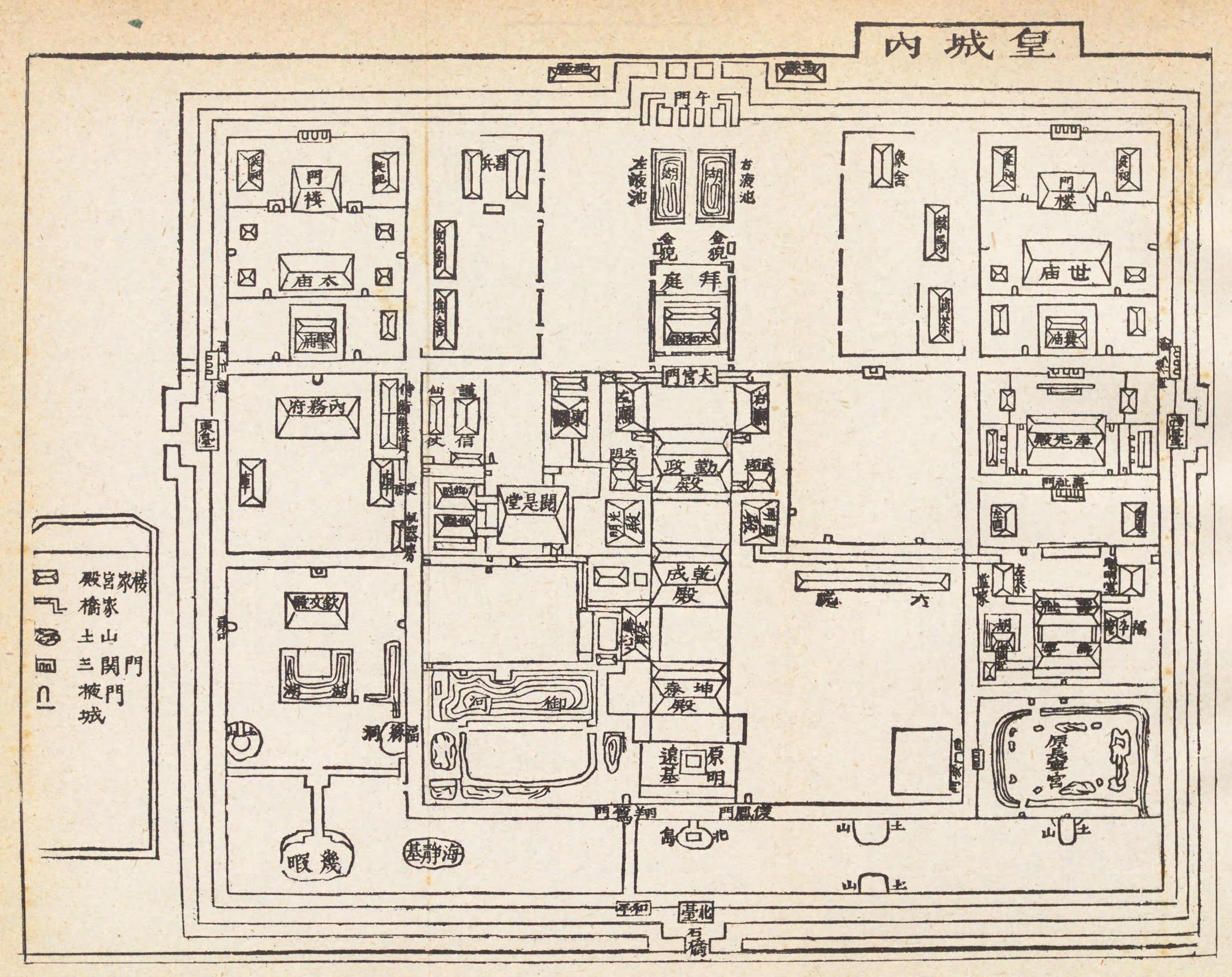 The map of the Imperial City, Hue, Annam Protectorate (Nguyen Dynasty) by 1909.